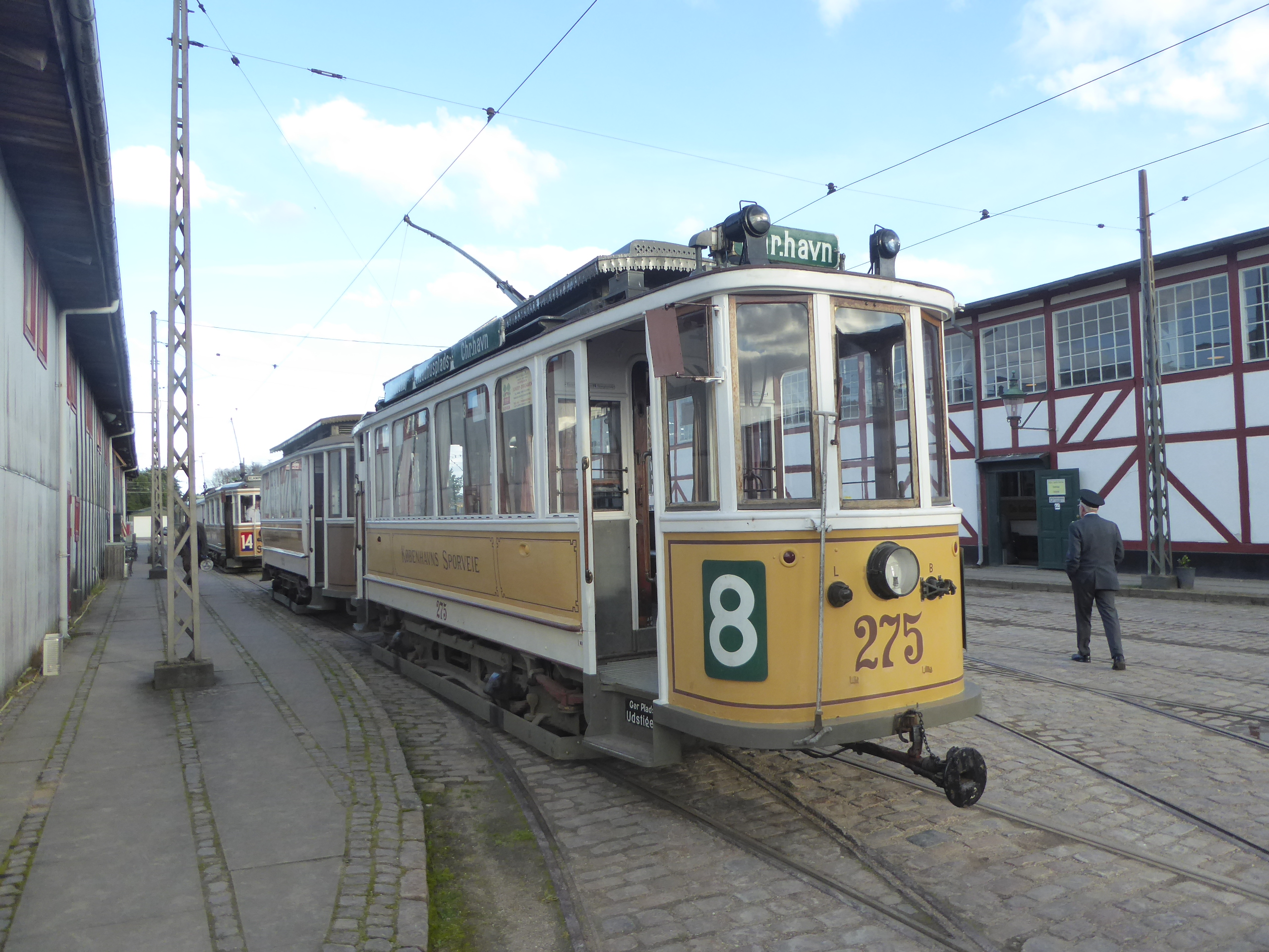 Old tram from Copenhagen, KS 275 build in 1907, at Sporvejsmuseet Skjoldenæsholm.